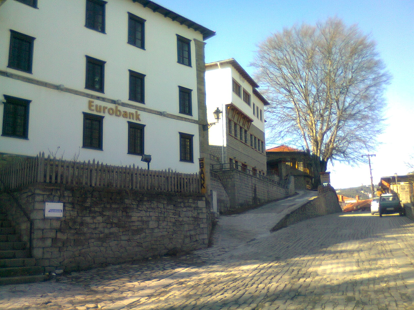 Eurobank Metsovo